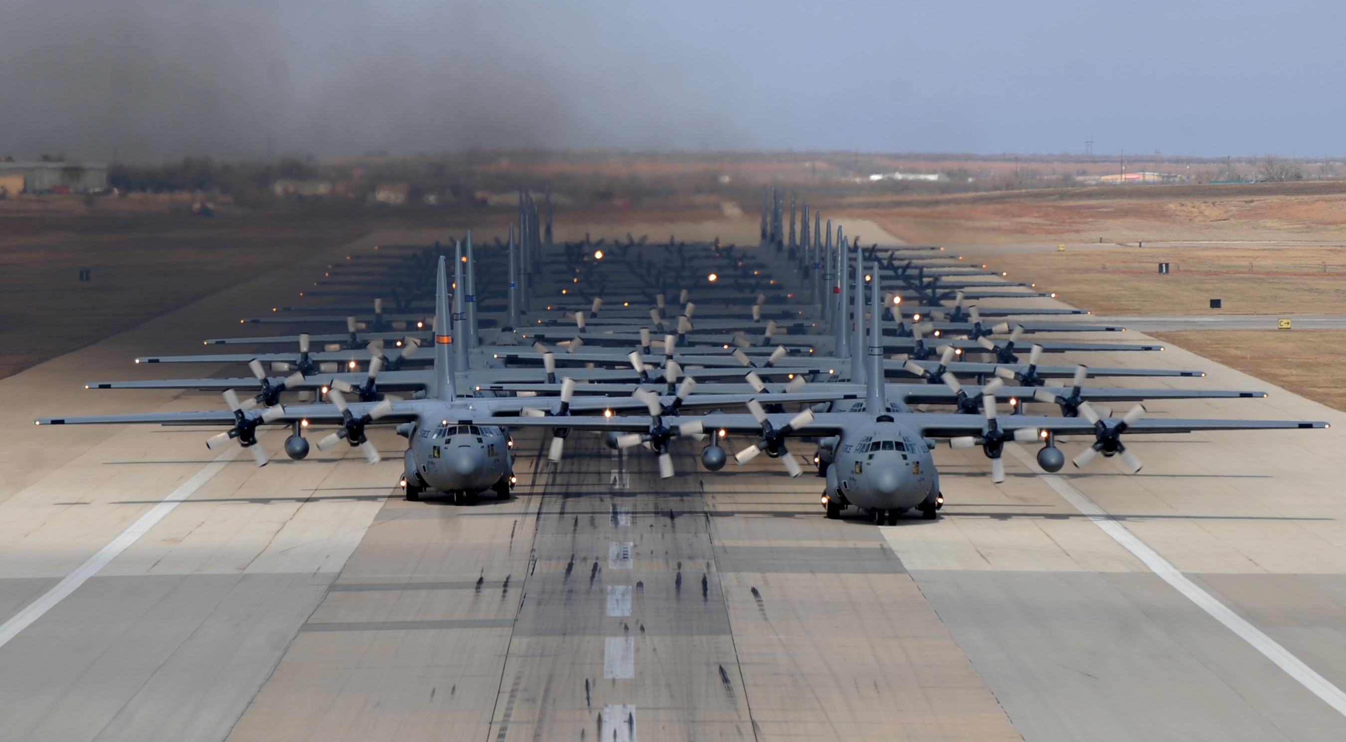 Eleven C-130H Hercules’ and 13 C-130J Super Hercules’ prepare to take off Dec. 6, 2014, from Dyess Air Force Base, Texas in support of the U.S. Air Force Weapons School's Joint Forcible Entry Exercise 14B. The C-130H models are from various Air National Guard units and the C-130J models are from the 317th Airlift Group at Dyess Air Force Base, Texas. In addition to the C-130s, the JFEX included approximately 20 C-17 Globemaster IIIs and various other aircraft. (U.S. Air Force photo/Airman 1st Class Alexander Guerrero)